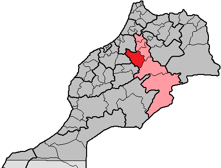 Location of the province Khénifra within the region Meknès-Tafilalet, Morocco. In total, Morocco has 16 regions, subdivided into 62 provinces and 13 prefectures.